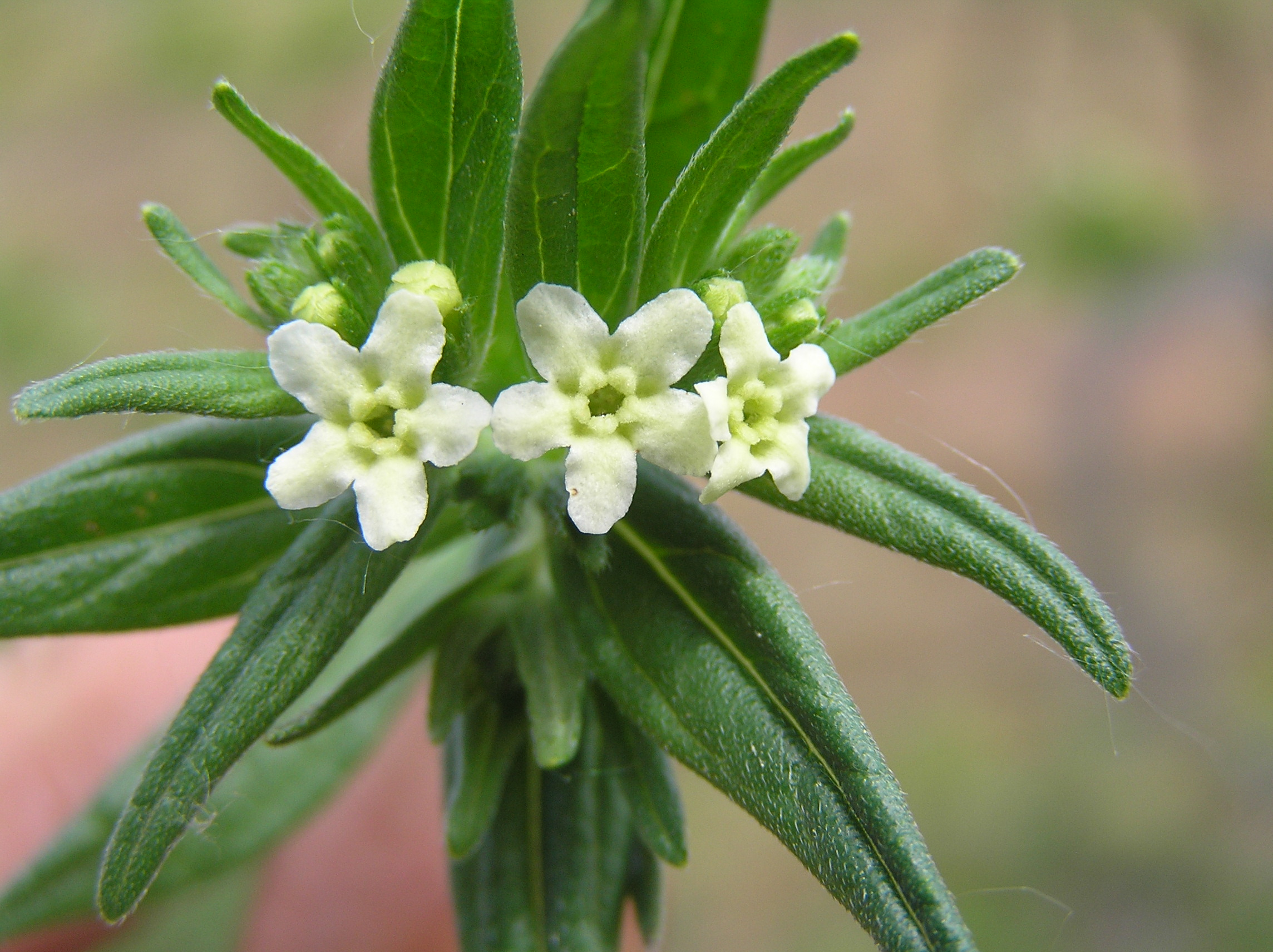 Lithospermum officinale, Pouzdřany, Southern Moravia, Czech Republic